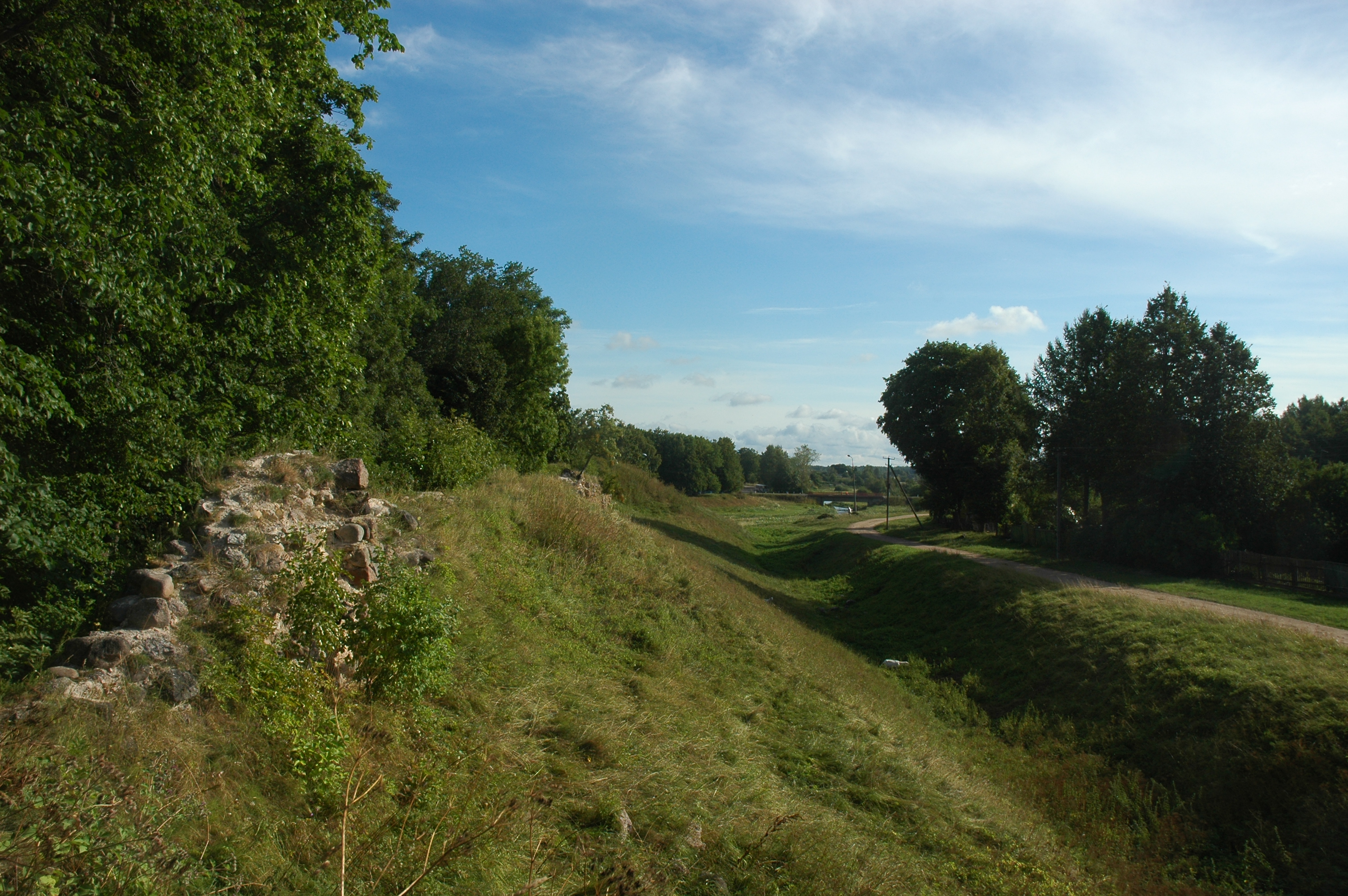 The ruined Eastern wall of the Gdov Kremlin. The Gdovka river is seen in the back.